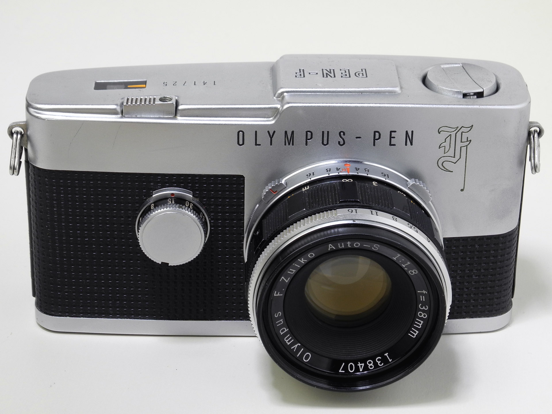 Olympus Pen F w/zuiko 38mm f/1.8